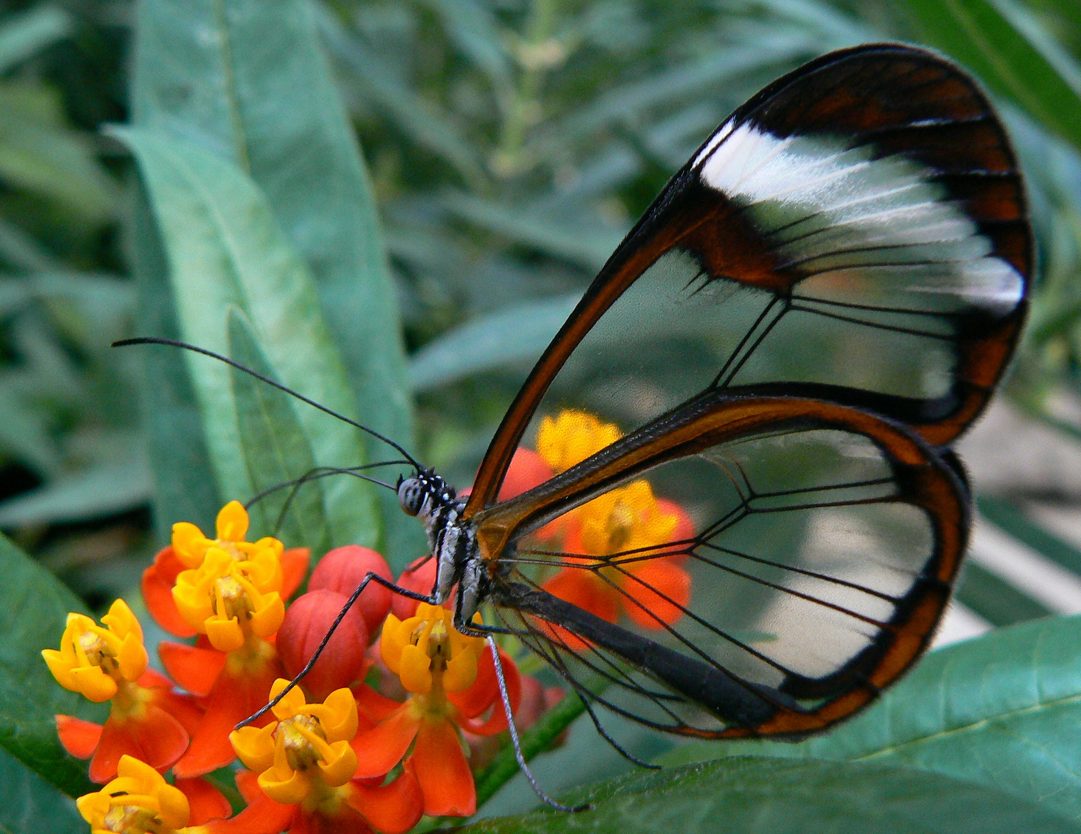 The clear wings make this South-American butterfly hard to see in flight, a succesfull defense mechanism.